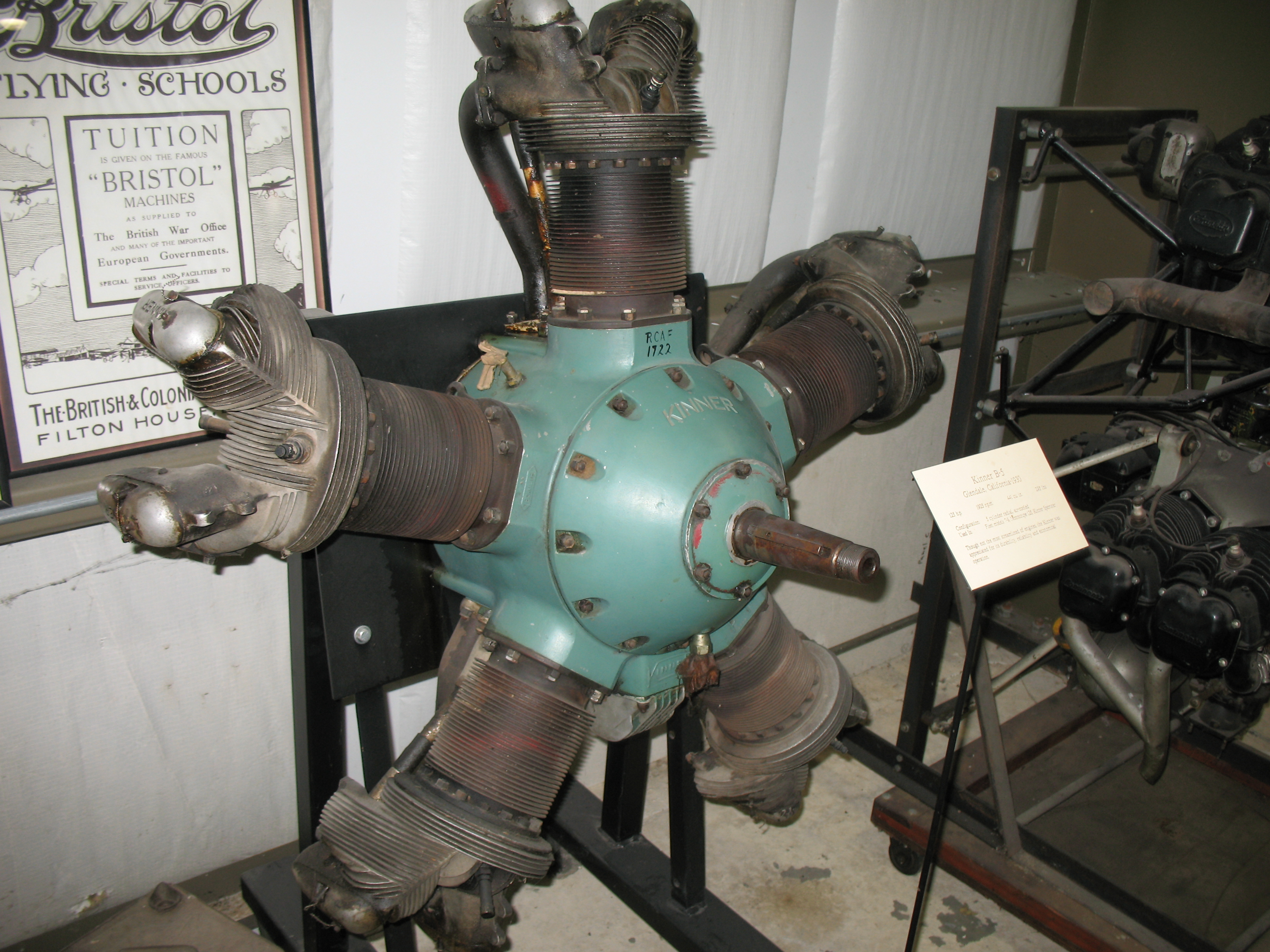 The Kinner B-5 engine on display at the Old Rhinebeck Aerodrome in New York. The placard reads: "Kinner B-5, Glendale, California-1930. 125 hp / 1925 rpm / 441cu in / 295 lbs. Configuration: 5 cylinder radial, air-cooled. Used In: Fleet models 7-9, Monocoupe 125, Kinner Sportster. Though not the most streamlines of engines, the Kinner was appreciated for its durability, reliability and economical operation."